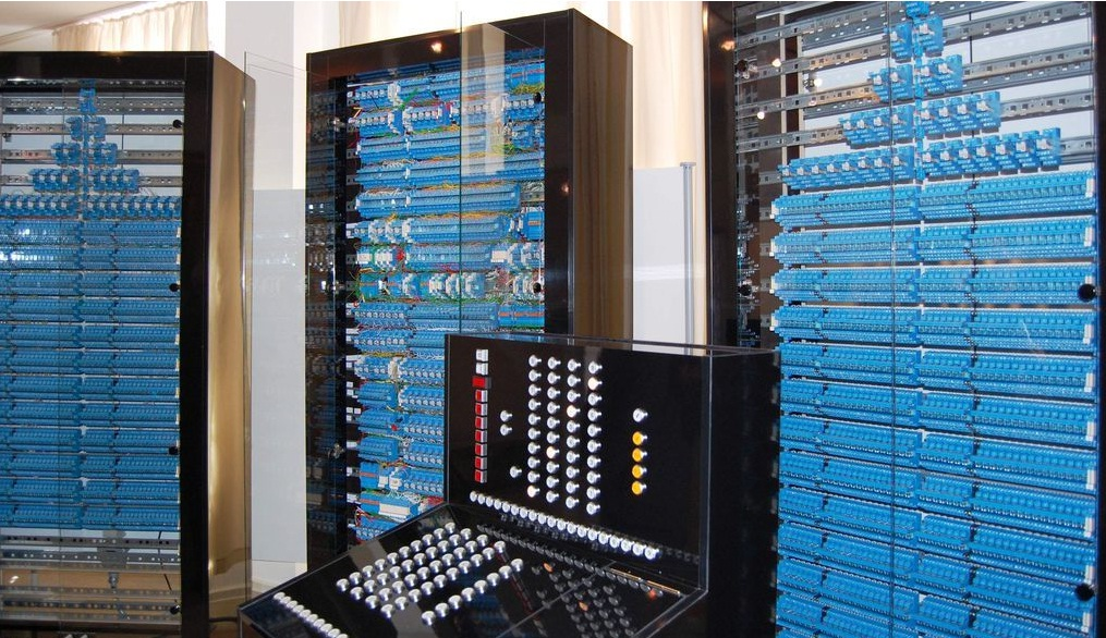 Zuse Z3 computer with Finder relays